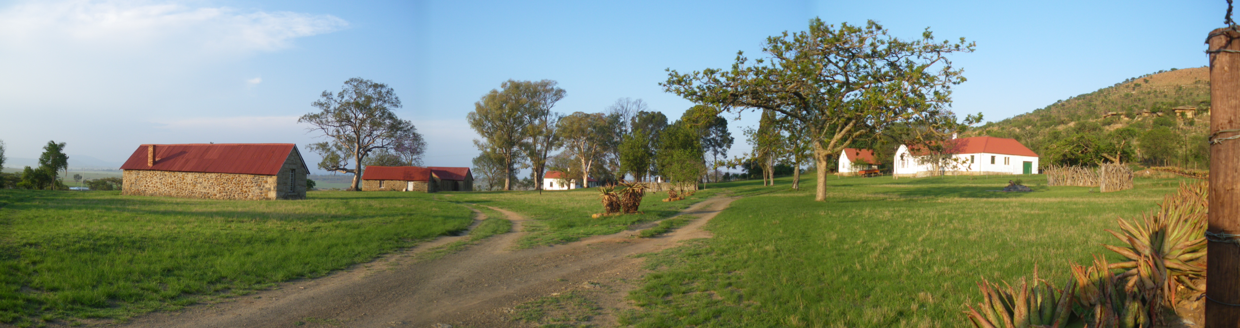 Rorke's Drift nowadays, Kwazulu-Natal, South Africa.